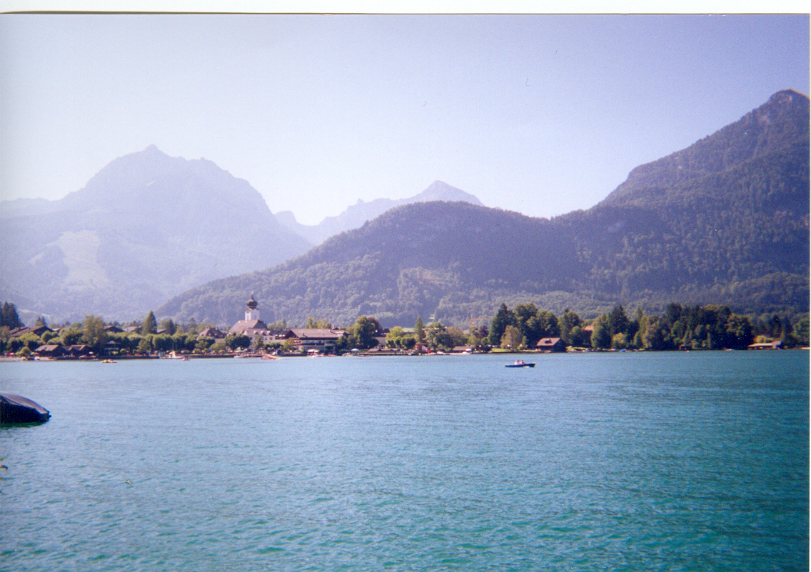 Strobl seen from Wolfgangsee